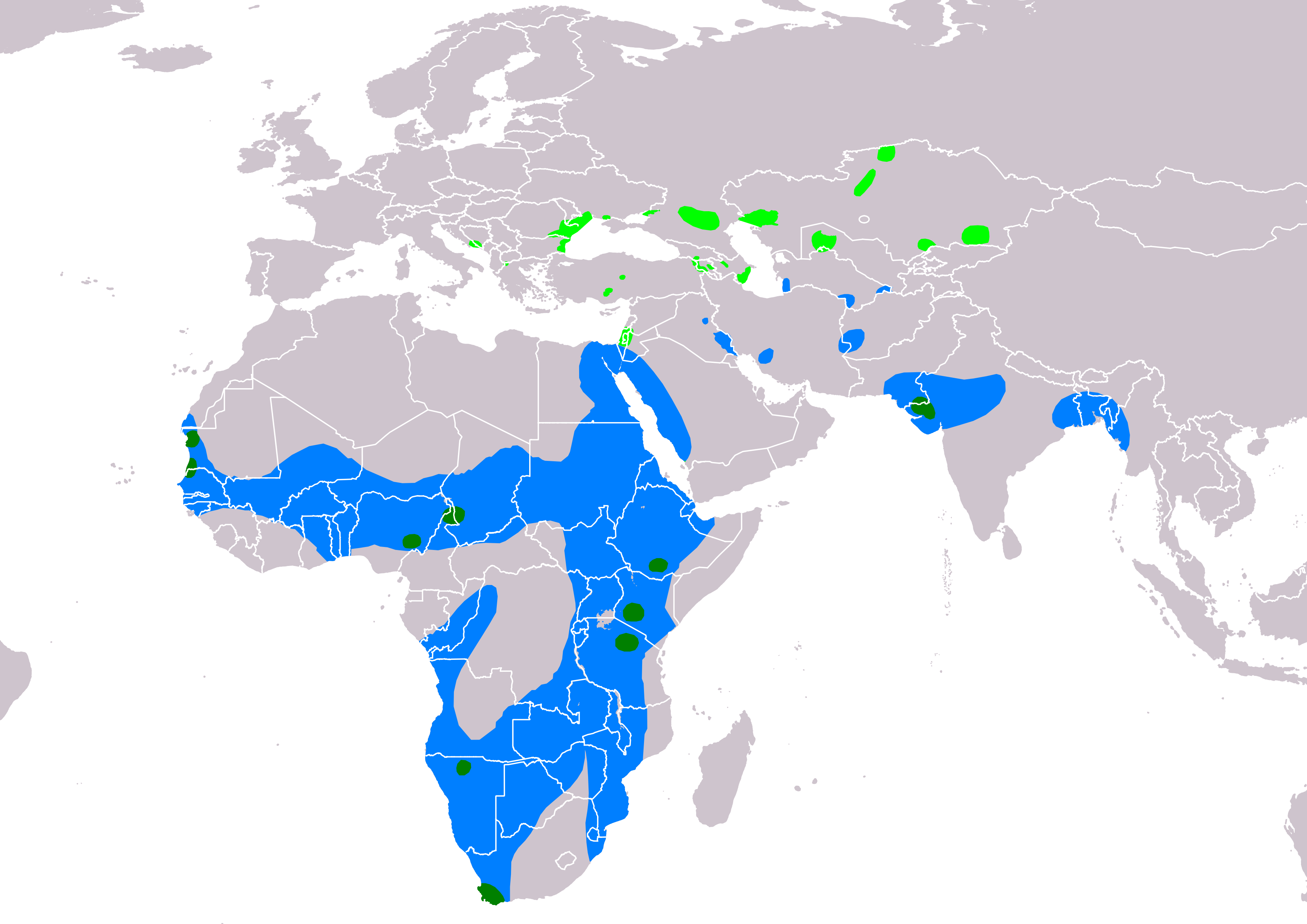 Map of great white pelican (Pelecanus onocrotalus) according to IUCN version 2018.2 Legend: Extant, breeding (#00ff00), Extant, resident (#008000), Extant, non-breeding (#007fff)